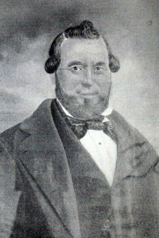 Theophilus Beebe III (1800-1867) portrait